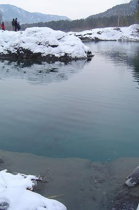 Lake in Altai Republic, thawed by geothermal heat in winter. March 2004. Photo taken by user:Doogal.